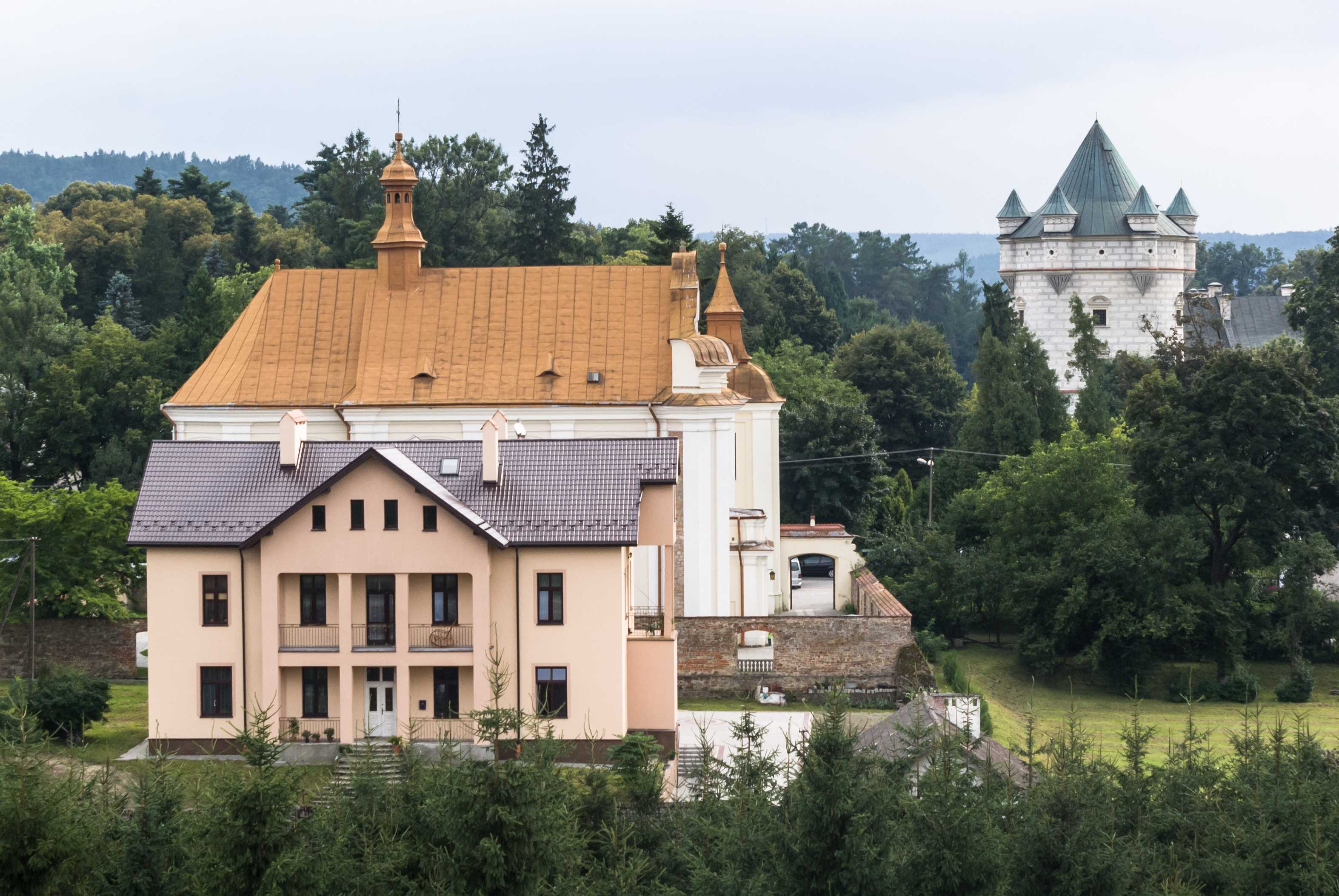 Saints Barbara and Martin church in Krasiczyn, Poland. Royal Tower of the Krasiczyn Castle in background.